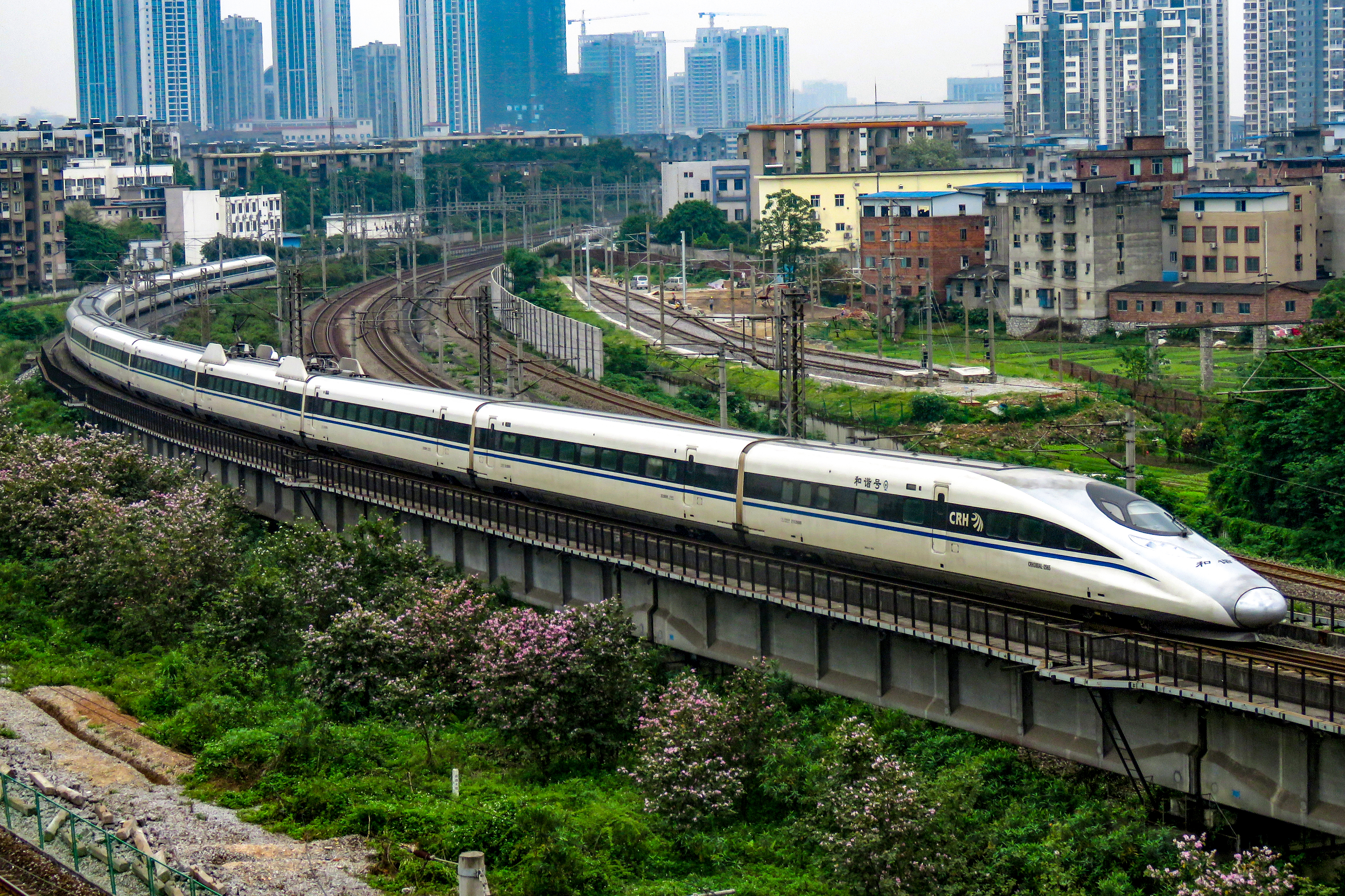 G530 from Beihai to Beijing West. But CR Beijing doesn't have AF-A...